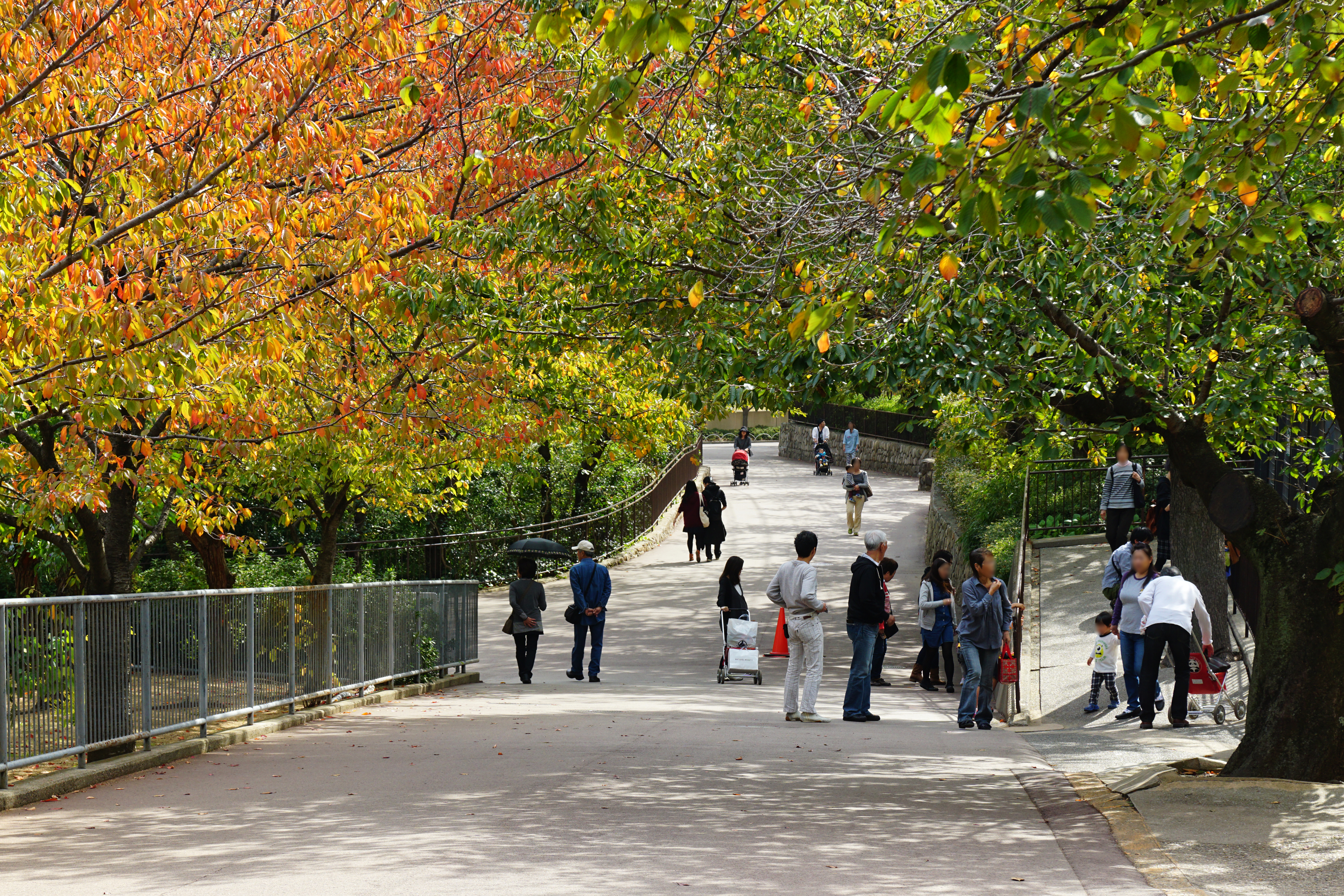 Kobe Oji Zoo in Kobe, Hyogo prefecture, Japan